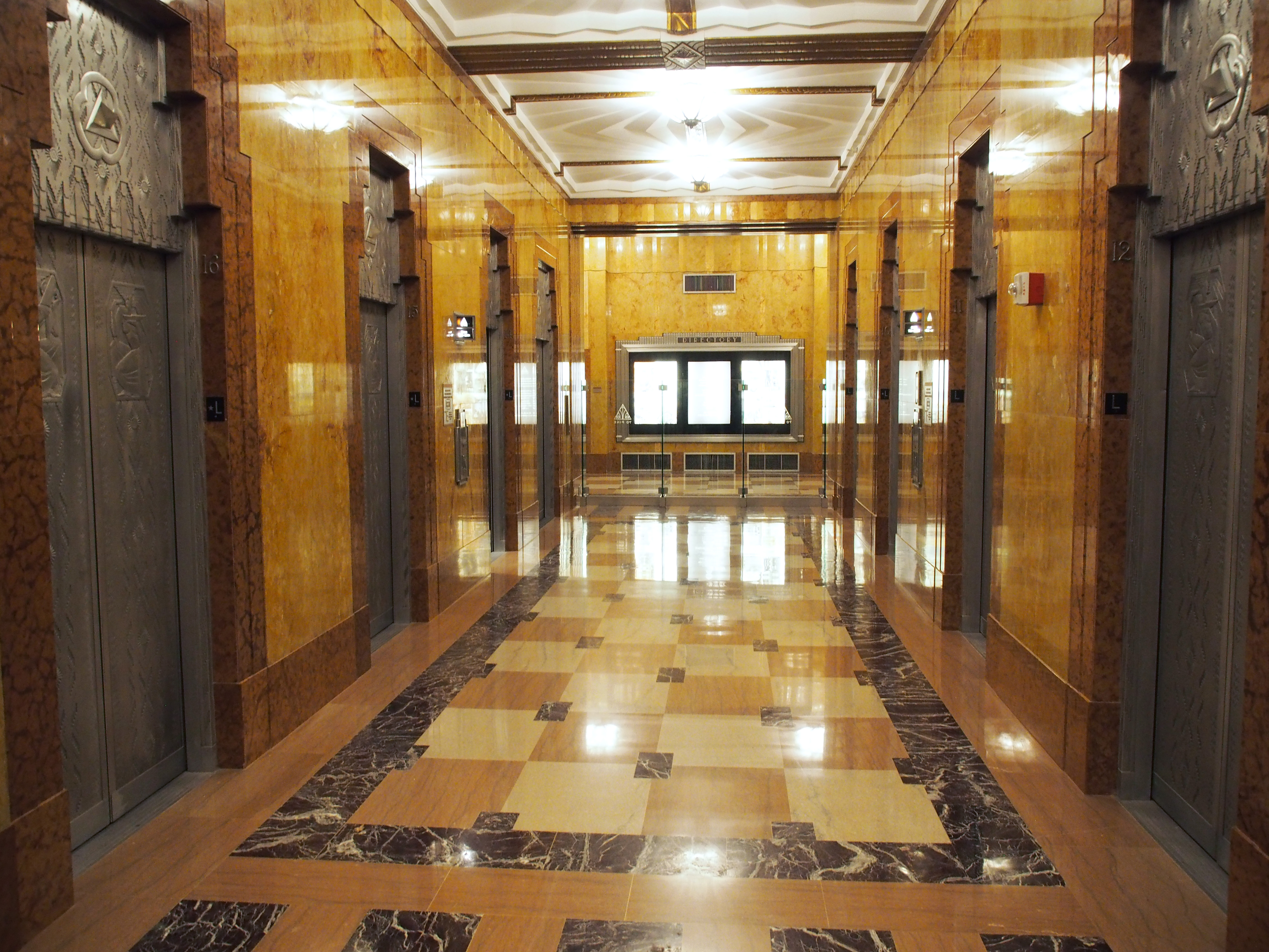 70 Pine Street - Open Access: Being the first in line for the tours, I was able to get good shots of elevator bank area without anyone in it.Site: 70 Pine Street